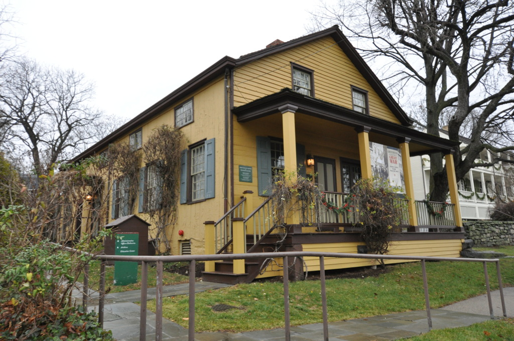 Museum gallery adjacent to Bush-Holley House, Strickland Road, Greenwich, Connecticut.